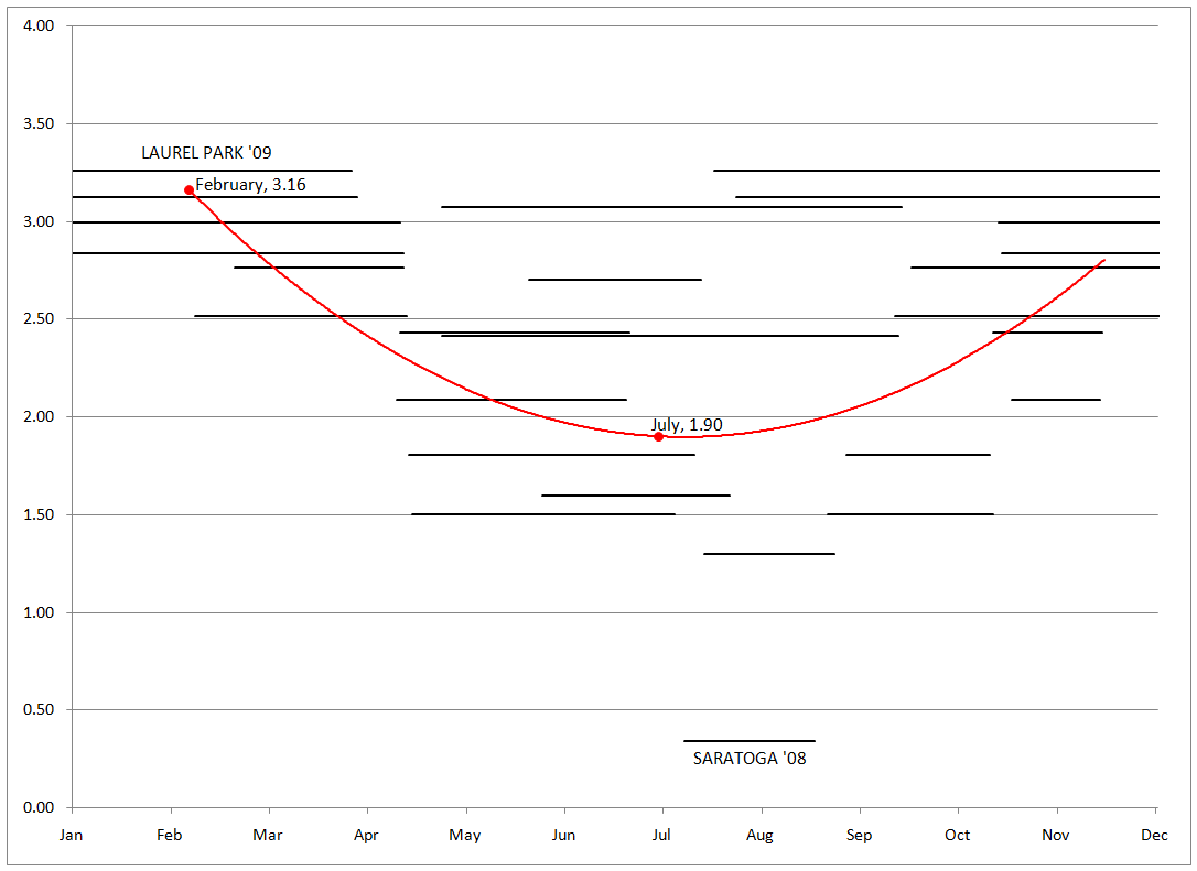 Jacob Stutzman Public Domain This is my own work produced on June 30, 2011 from data provided by the Thoroughbred Owners and Breeders Association on Career Ending Injuries [1]